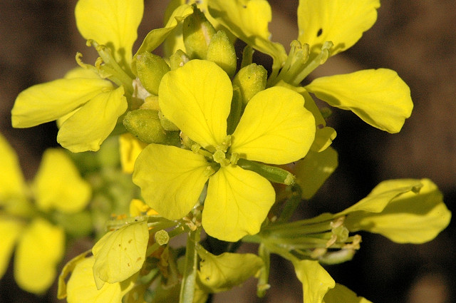 Sinapis arvensis from Commanster, Belgian High Ardennes .